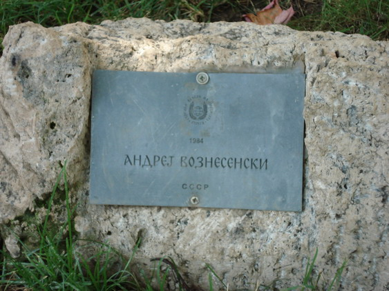 Struga Poetry Evenings ( Струшки вечери на поезијата ), Struga, Republic of Macedonia